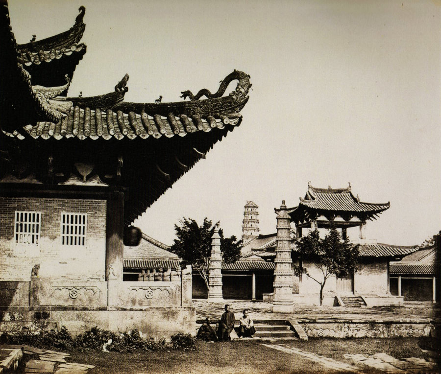 Main hall in the Temple of Bright Filial Piety